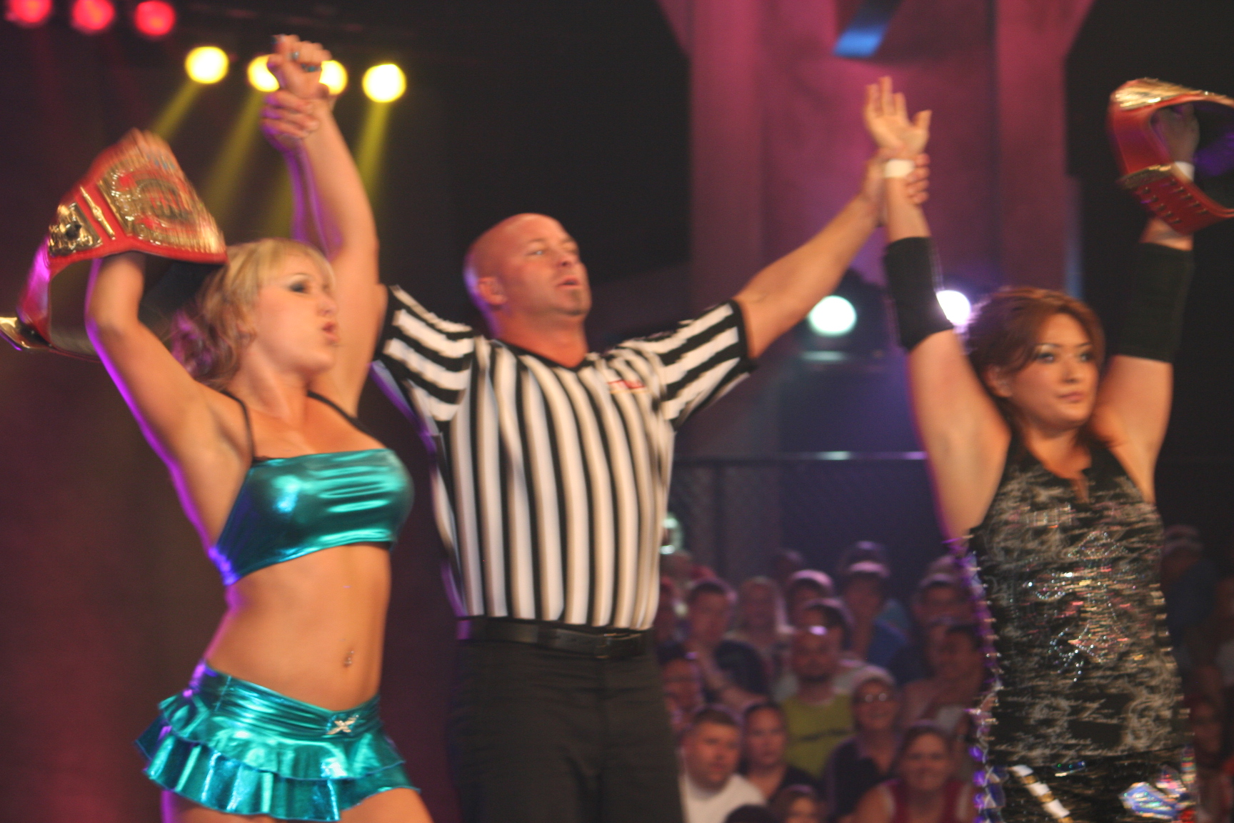 Professional wrestlers Taylor Wilde and Ayako Hamada with the TNA Knockout Tag Team Championship at a TNA Impact! taping